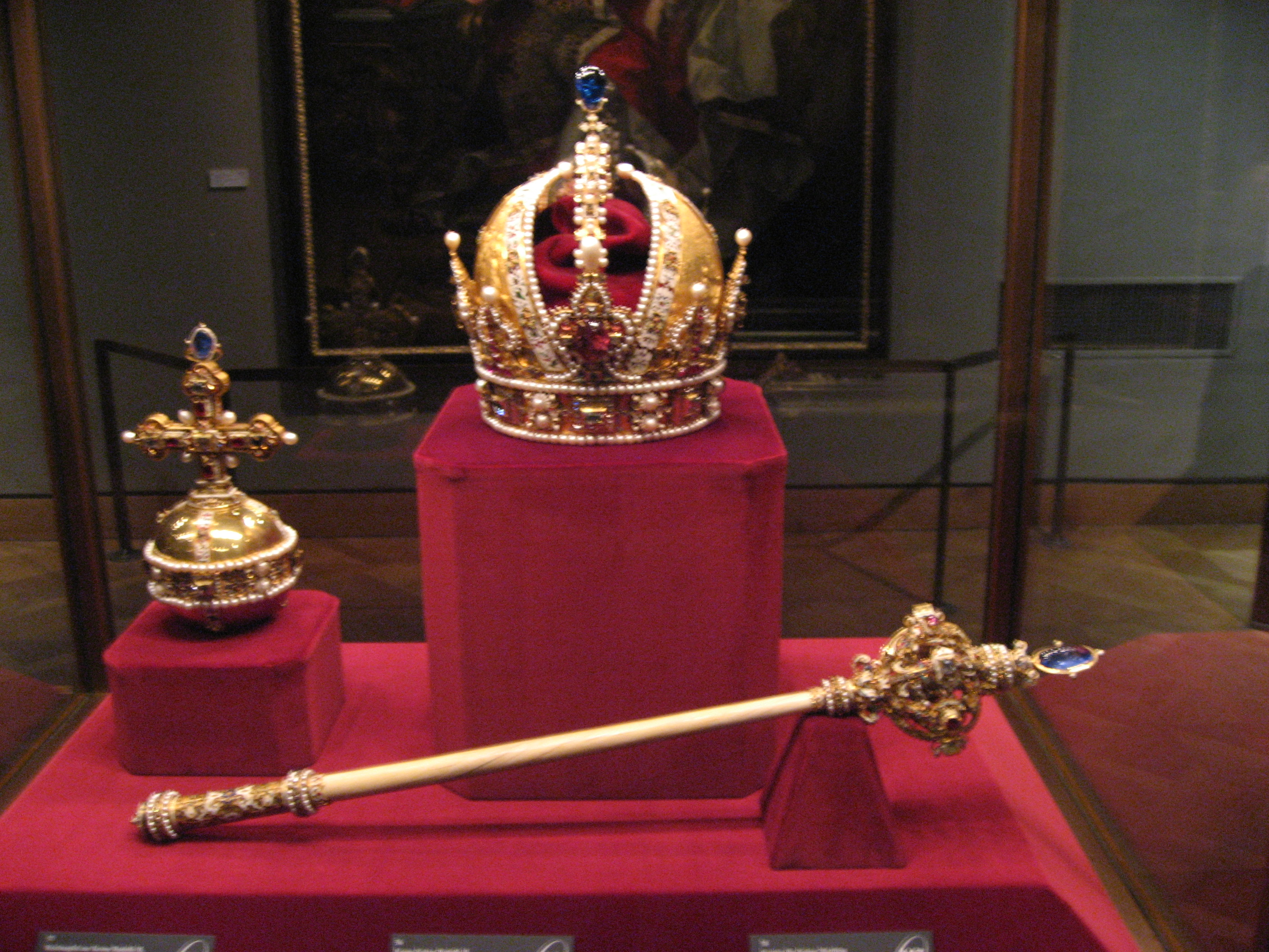 The Crown Jewels of Austria, kept at the Imperial Treasury (Schatzkammer) in Vienna.